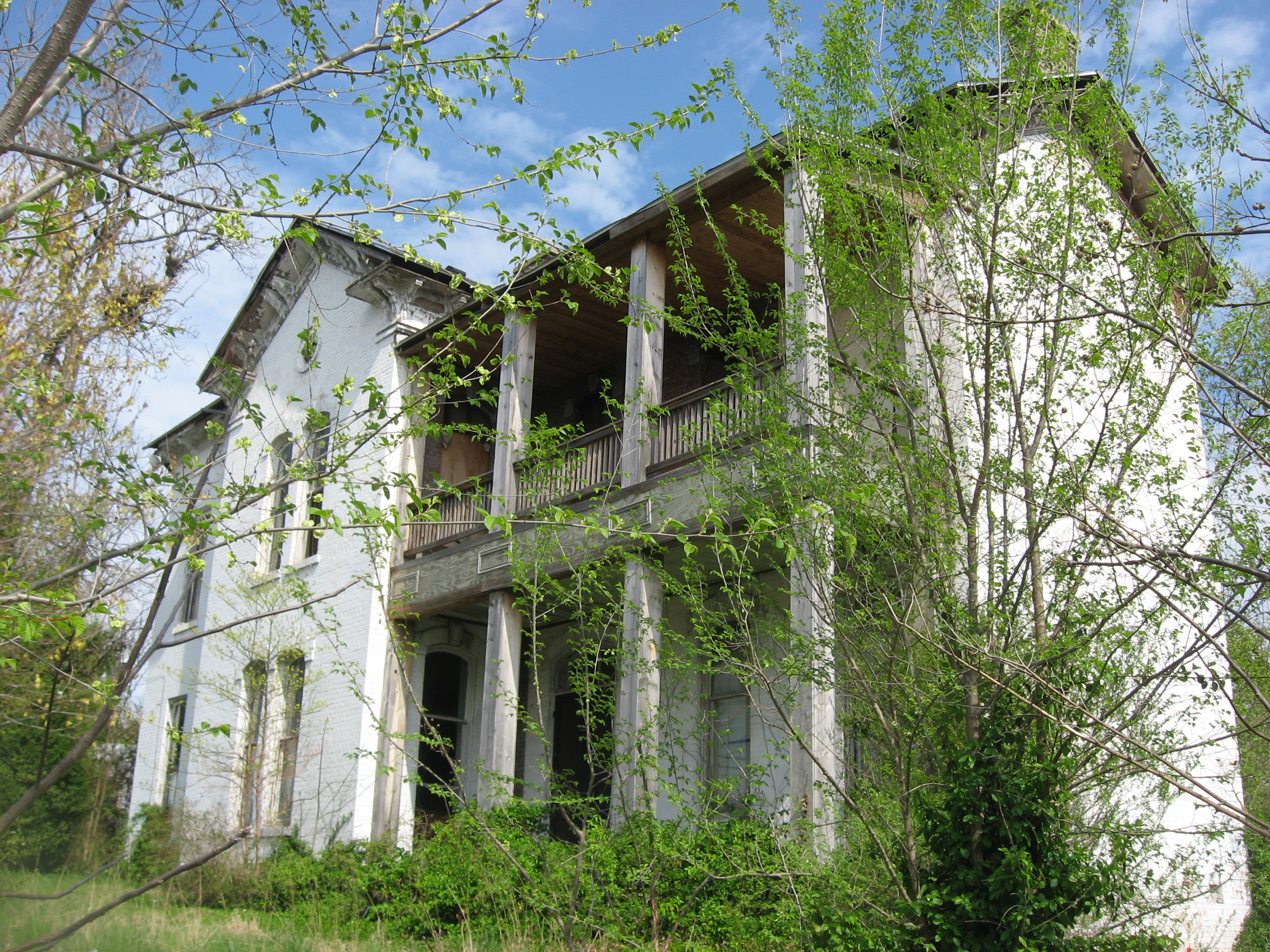 Front and western side of the former Hotel Earlington, located at 118 E. Main Street (U.S. Route 41) in Earlington, Kentucky, United States. Built in 1890, it is listed on the National Register of Historic Places.